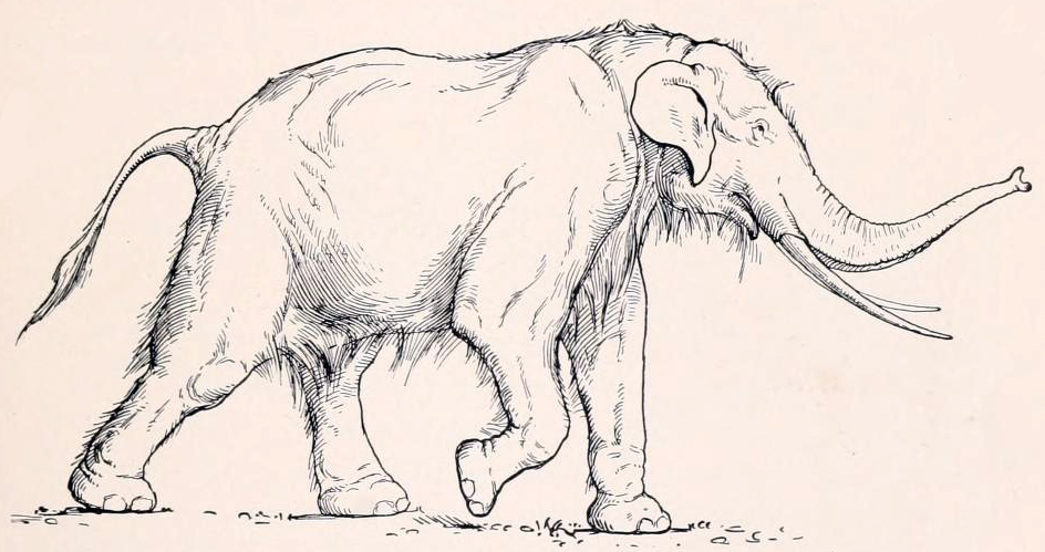 Straight Tusked Elephant Elephas antiquus Remains of this 400,000 year old elephant have been found in England which would have been twice the size of the largest modern African elephant. One in particular was found with flint tools which may indicate it was hunted and eaten by humans.